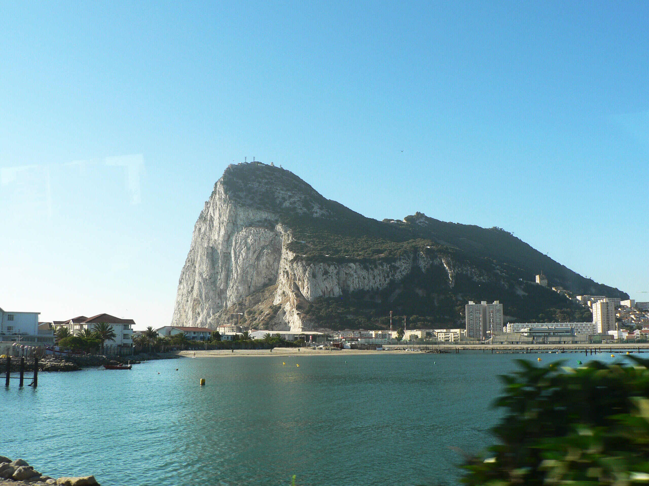 Gibraltar Rock and water